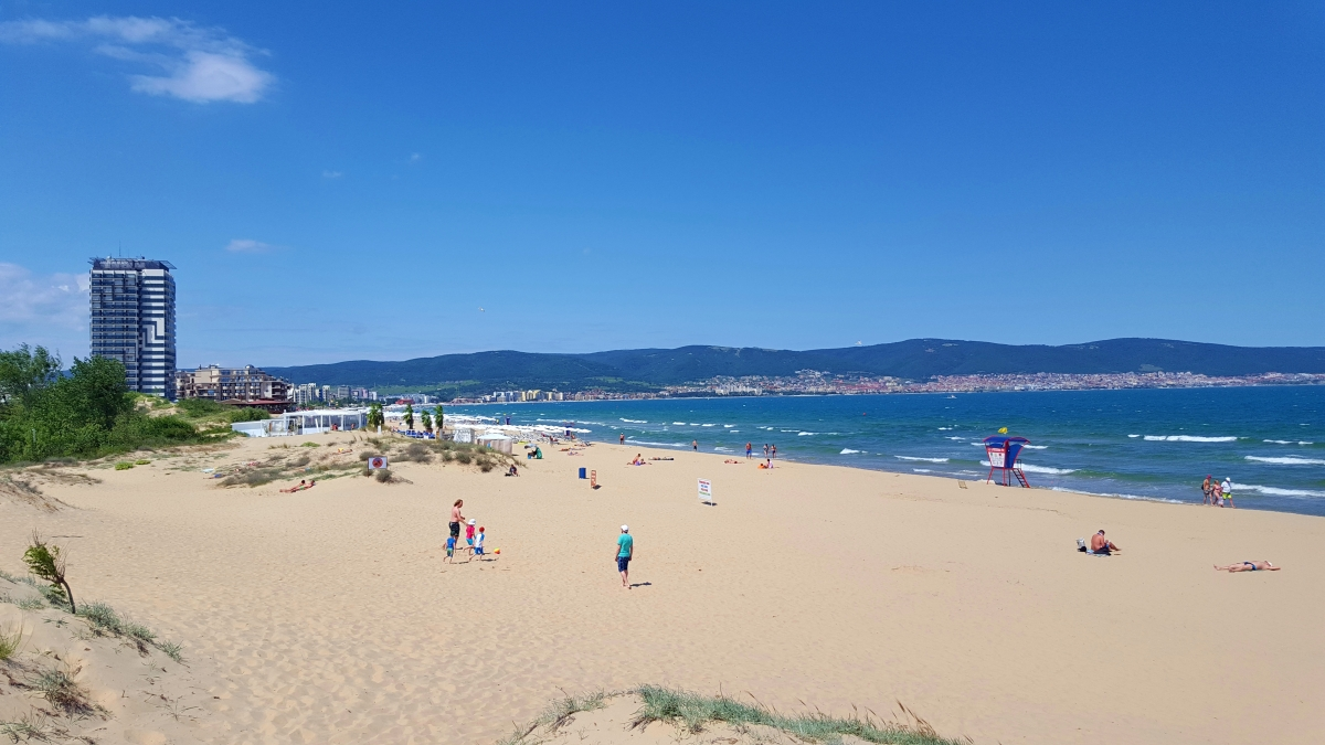 Beach